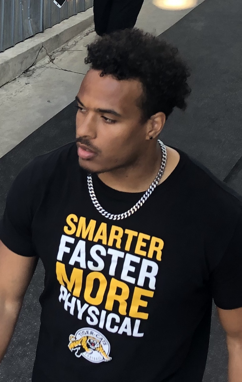 Valentin Gnahoua, defensive lineman for the Hamilton Tiger-Cats.